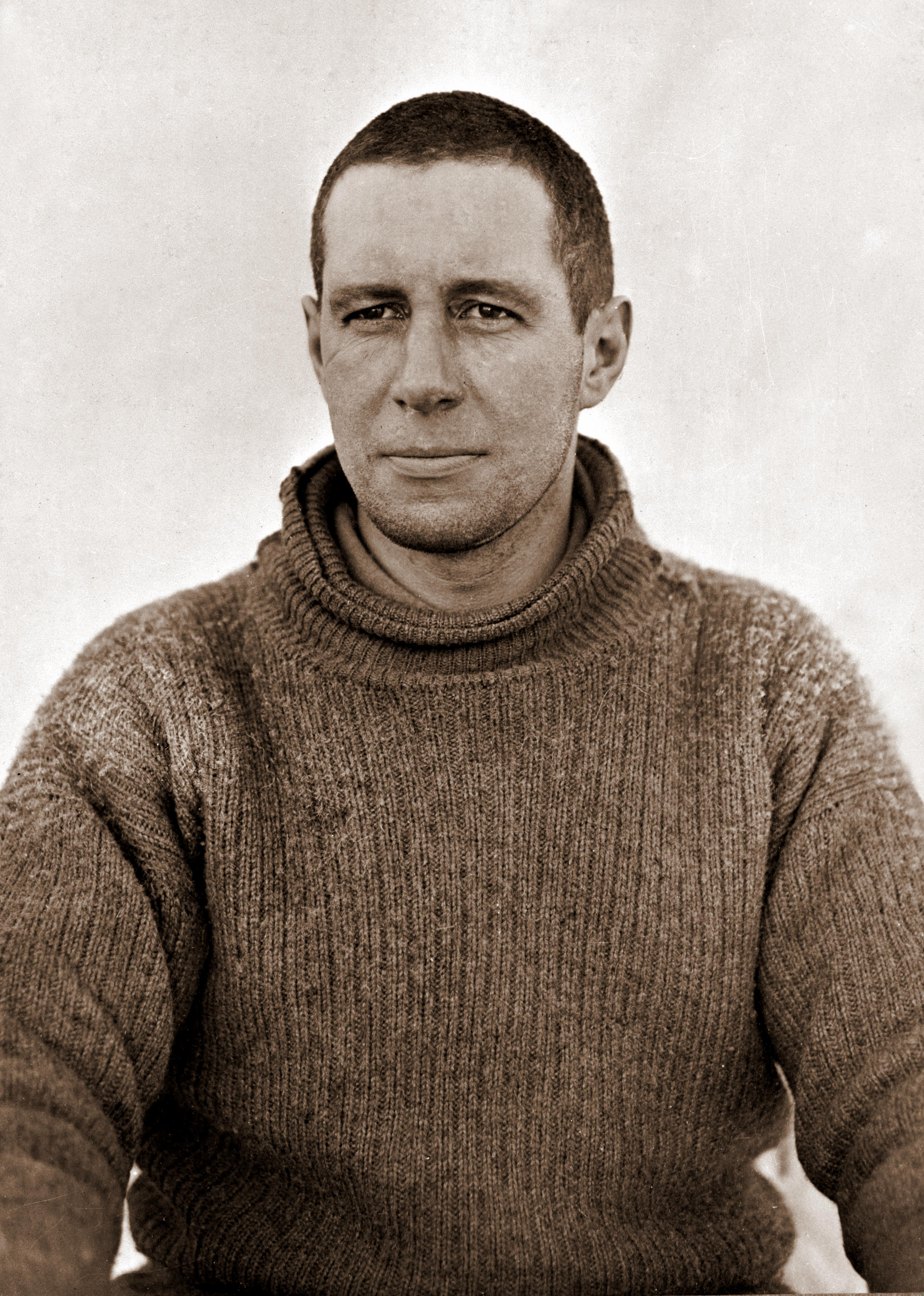 Captain Lawrence Edward Grace Oates during the British Antarctic Expedition of 1911-1913, ca 1911, Reference Number: PA1-f-067-069-1, Silver gelatin print, Photographic Archive, Alexander Turnbull Library